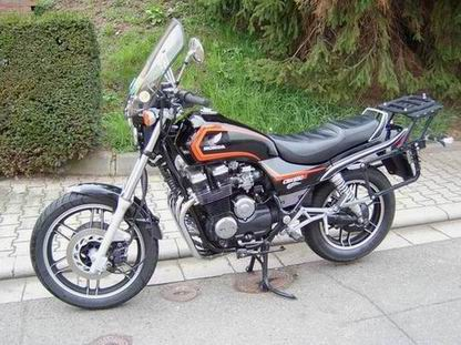 Honda CBX650E